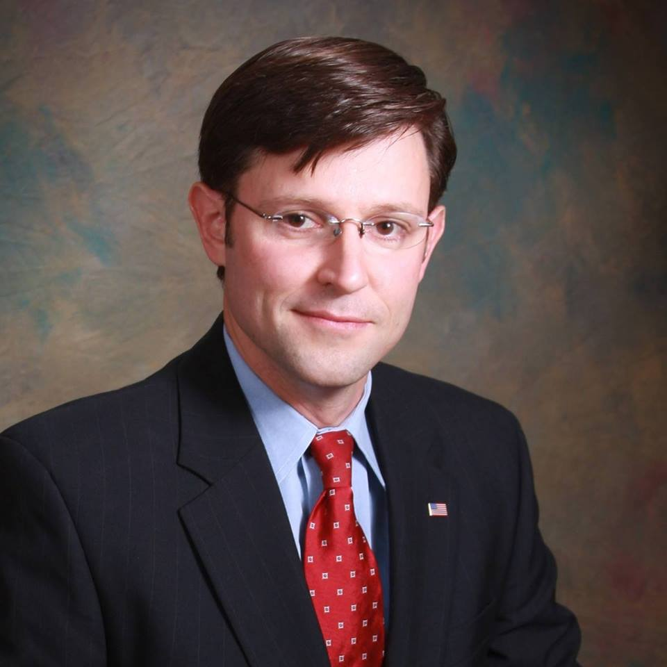 Mike Johnson of Louisiana official portrait